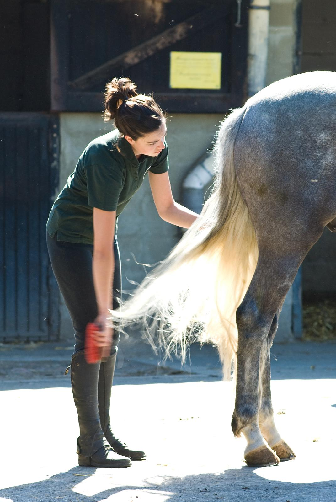 Brushing a horse's tail